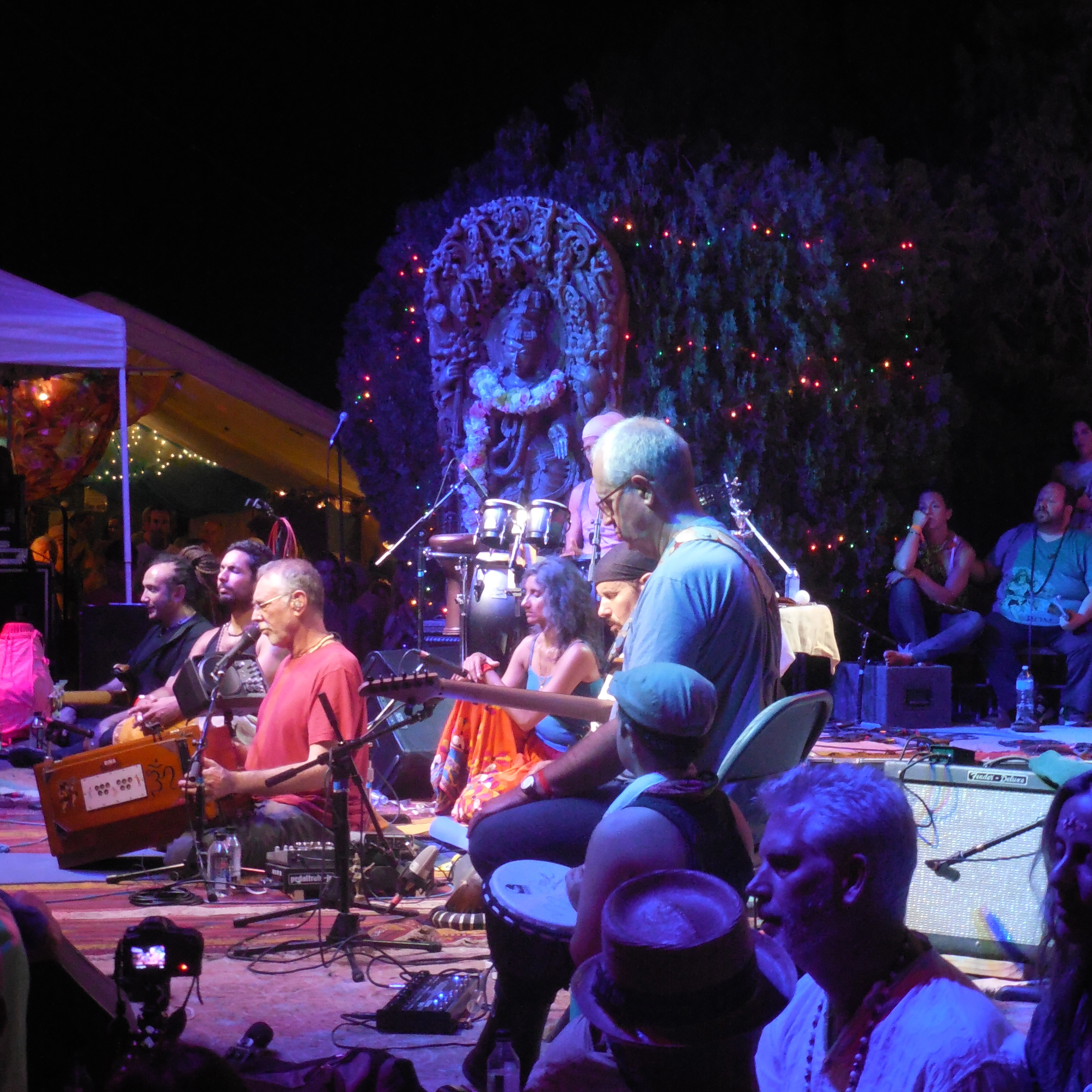 Krishna Das playing at Bhaktifest West in Joshua Tree, California, 2015